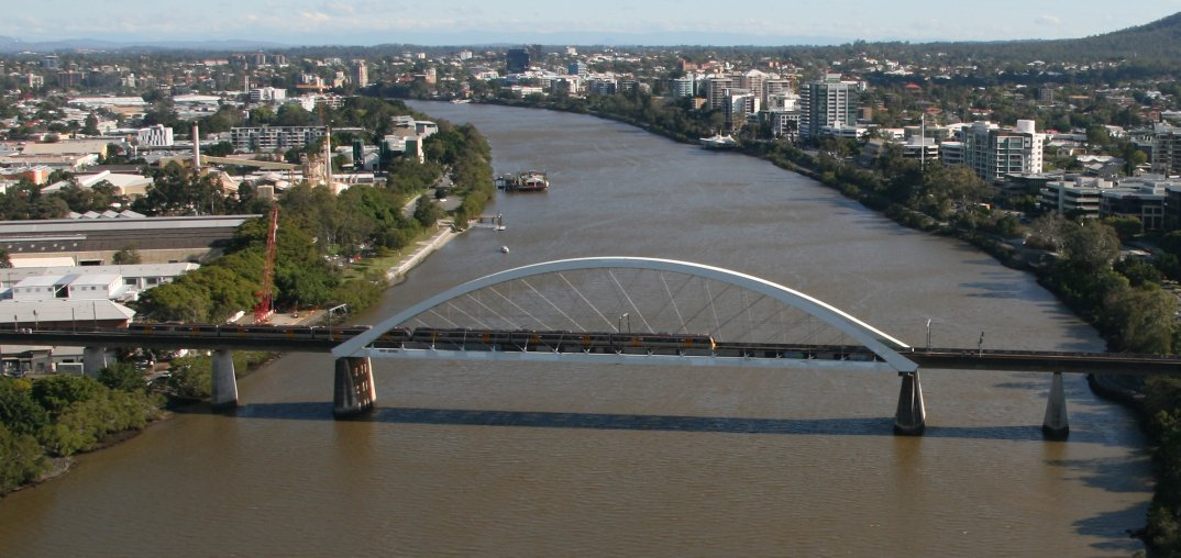 Merivale Bridge, Brisbane taken from an oblique elevated vantage